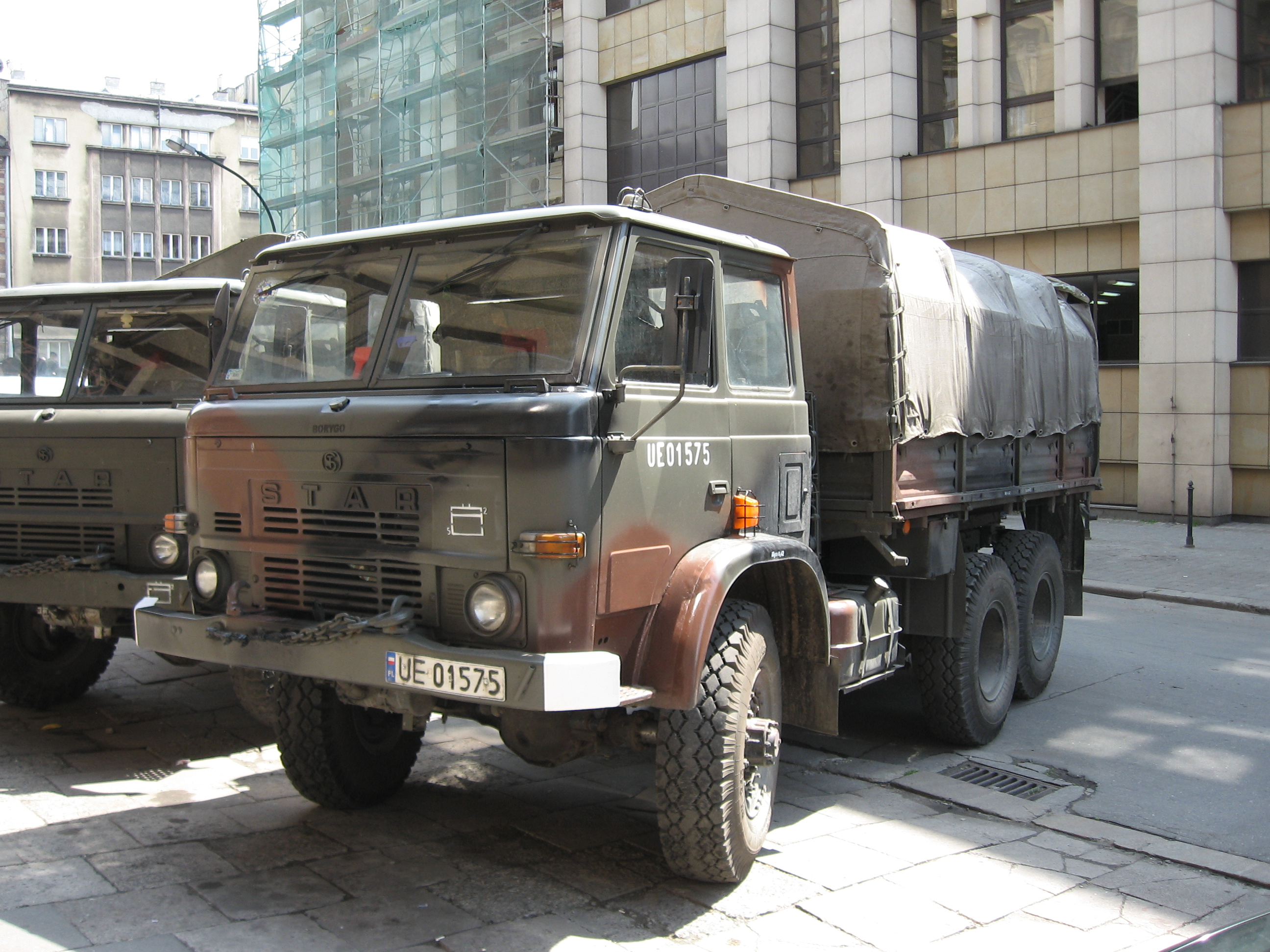 STAR 266 truck in Kraków.